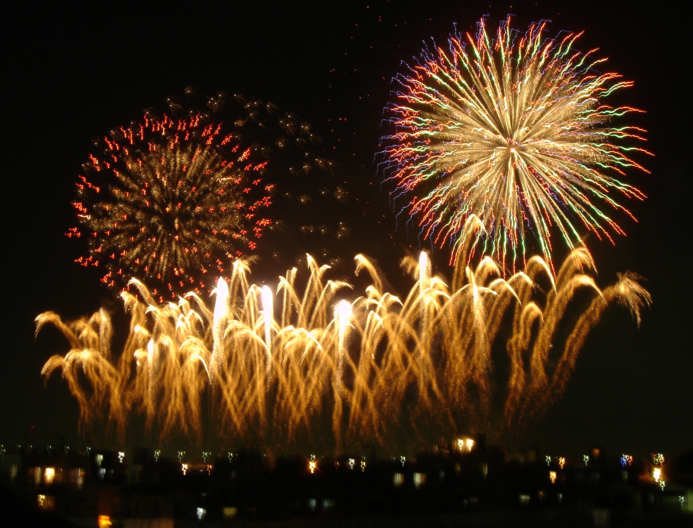 Fireworks in Tokyo.